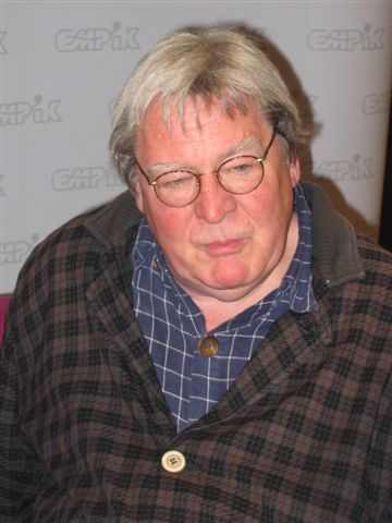 Alan Parker (b. 1943), British stage manager